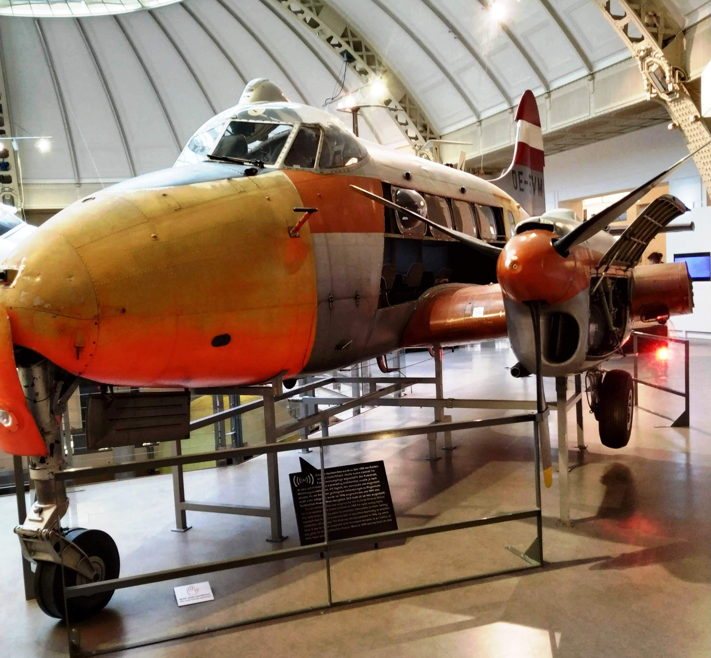 Airplane De Havilland DH 104 Dove at Vienna Technical Museum